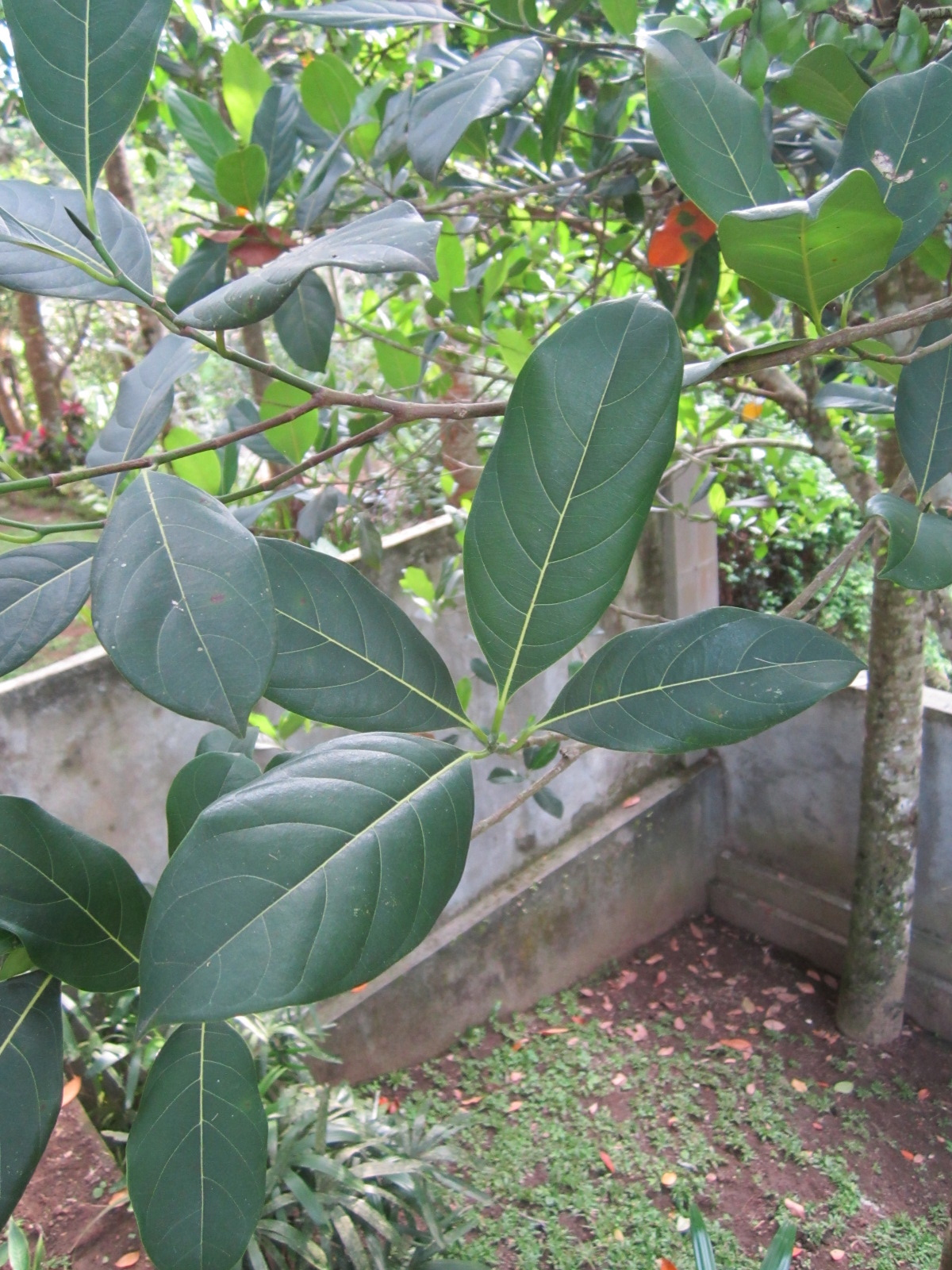 Leaves of a Balinese jackfruit tree